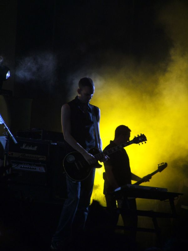 Placebo live.None